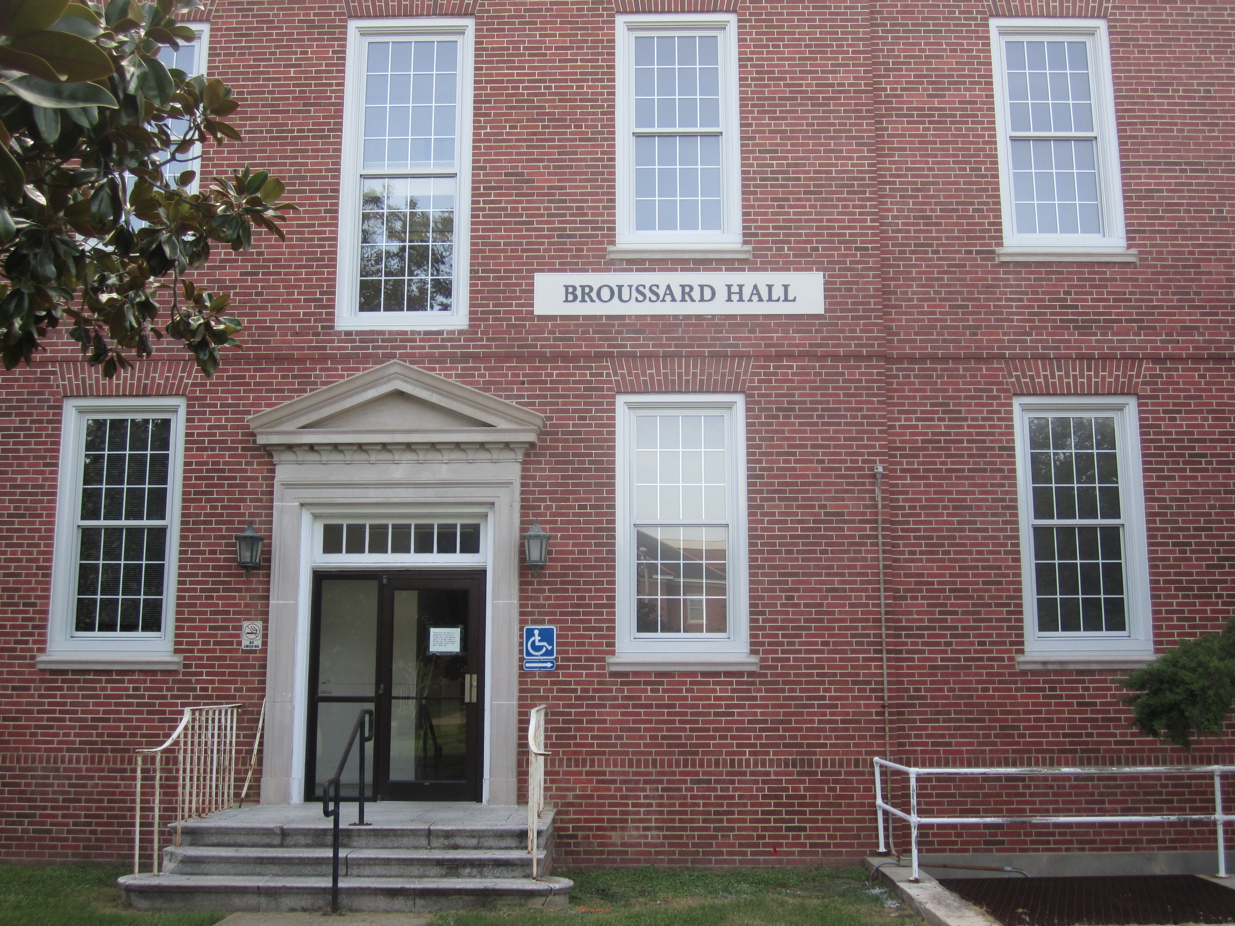 I took photo of Broussard Hall (physics) at ULL in Lafayette, LA, using a Canon camera.